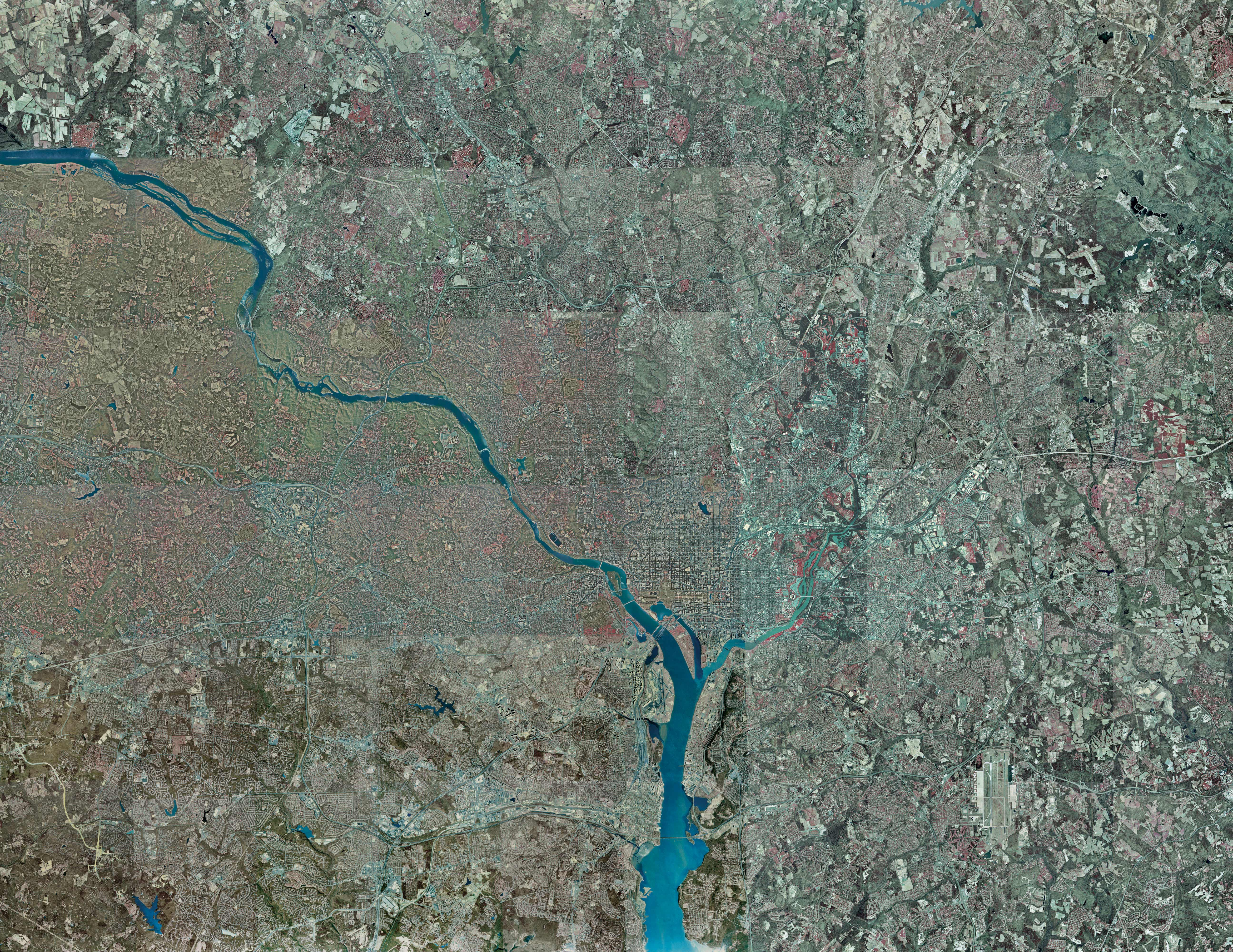 Washington, DC Aerial Photo